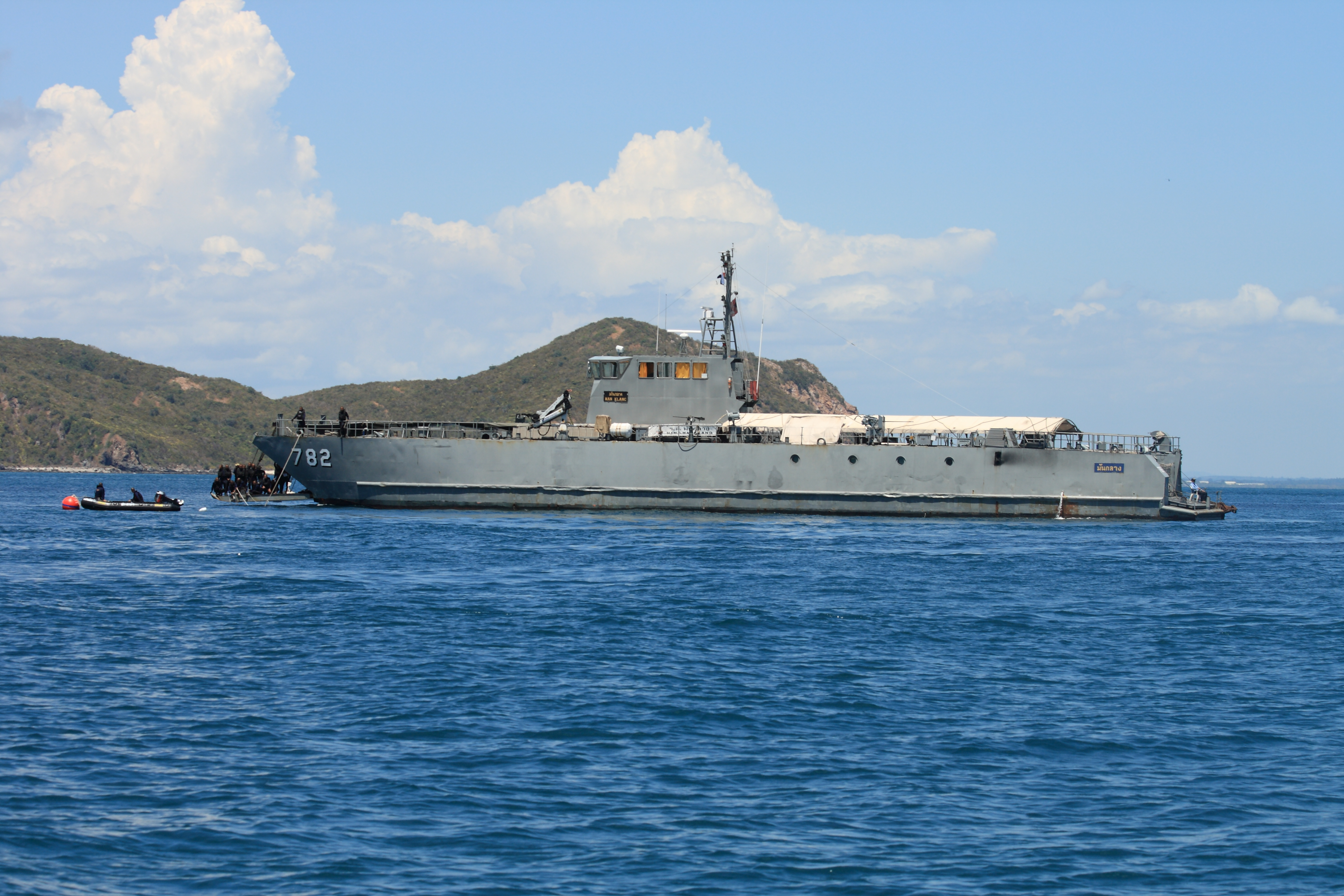 Royal Thai Navy landing ship HTMS Mun Klang (782) refurnished to naval diving base.